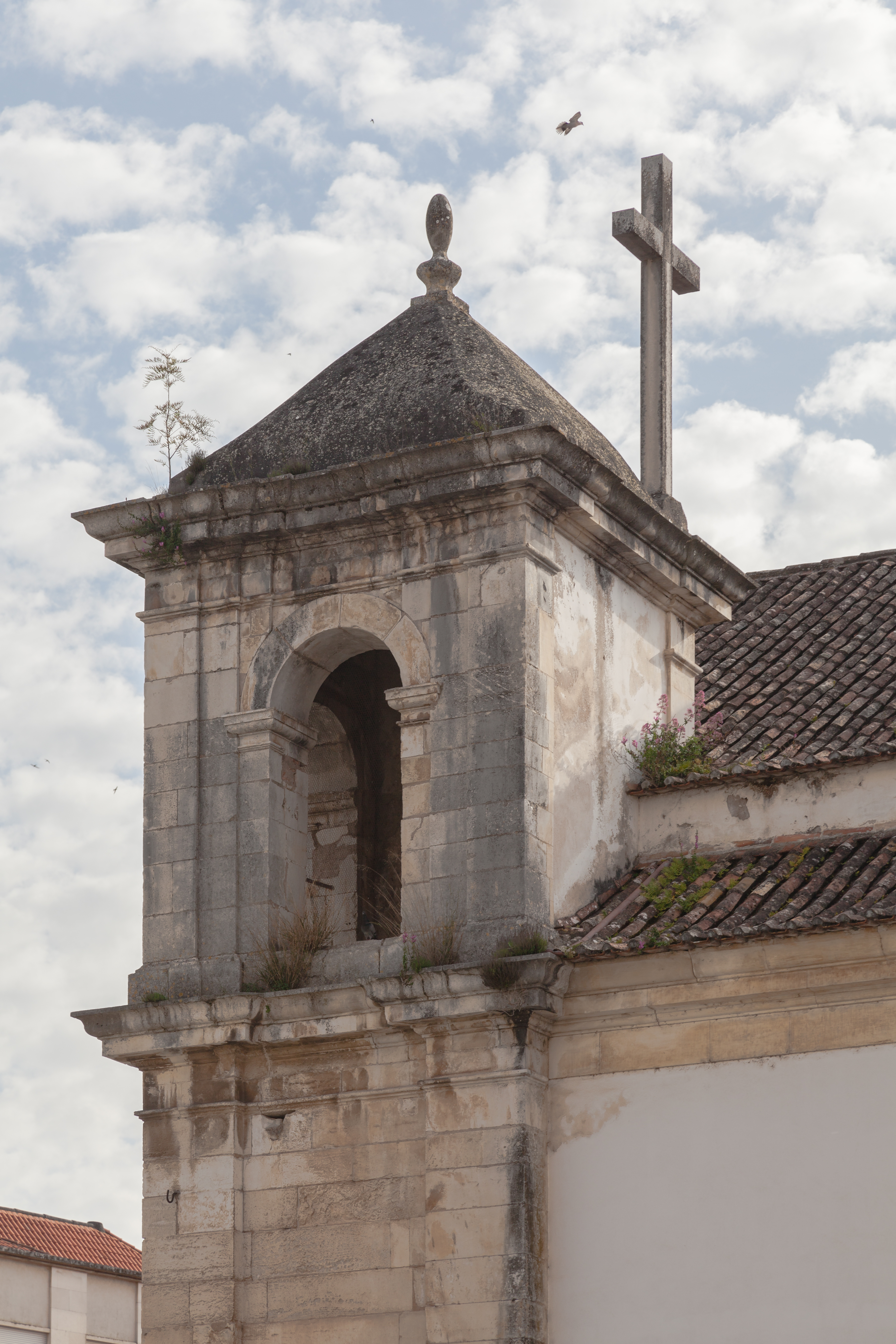 Church of St. John of Almedina, Coimbra, Portugal